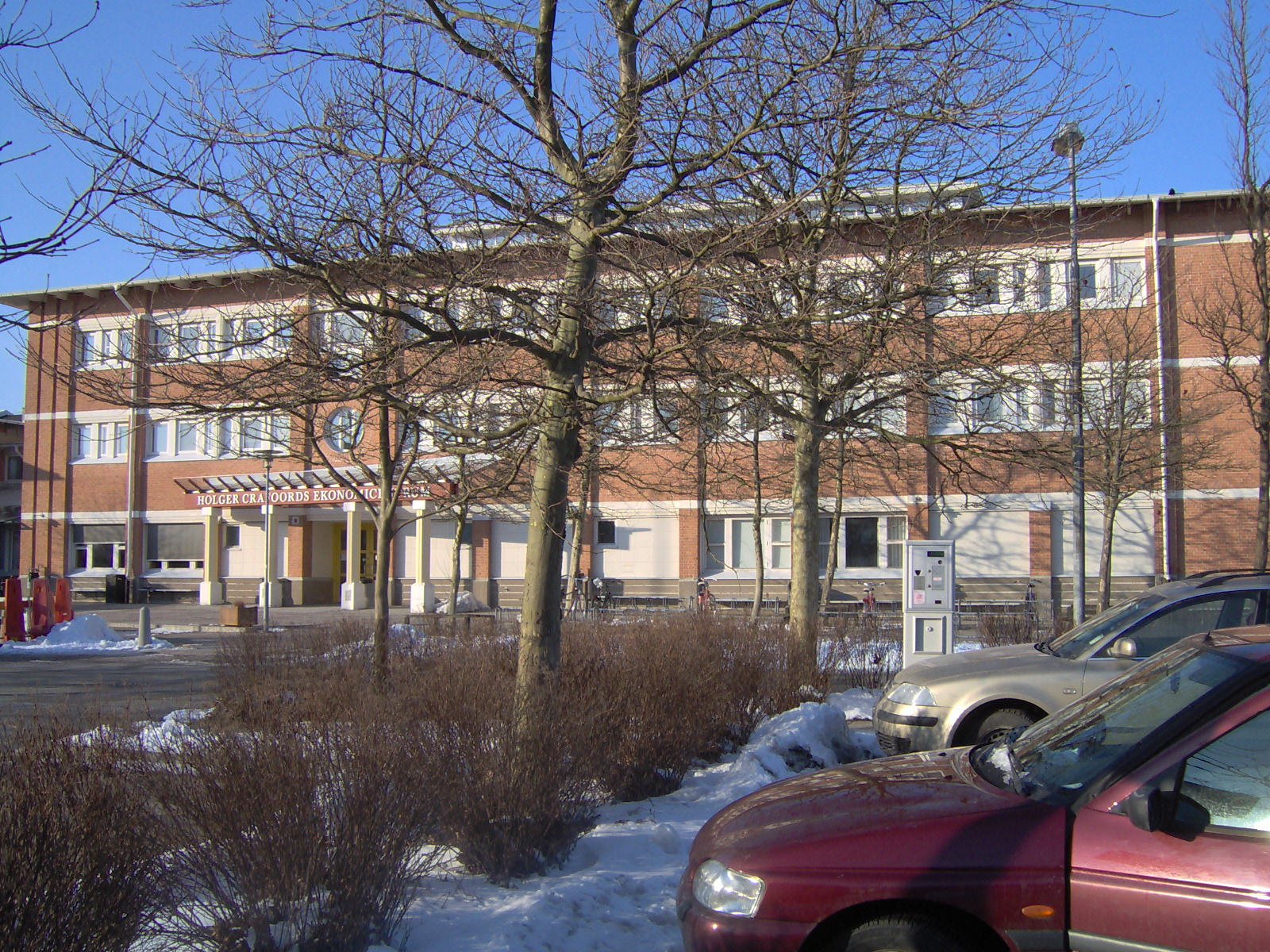 Economy center, Lund University, taken by Andreas Vilén March 6th 2005